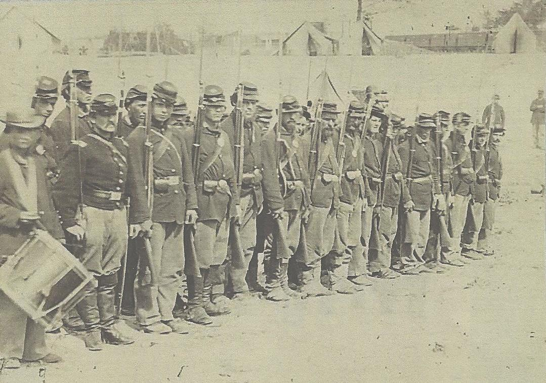 "Co C 110th Pennsylvania Infantry after the Battle of Fredericksburg" Possibly part of a series of pictures taken on the 110th PA Infantry by Andrew J. Russell, April 24, 1863